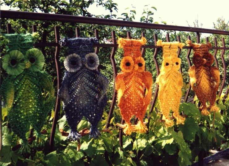 Decorative macramé owls.